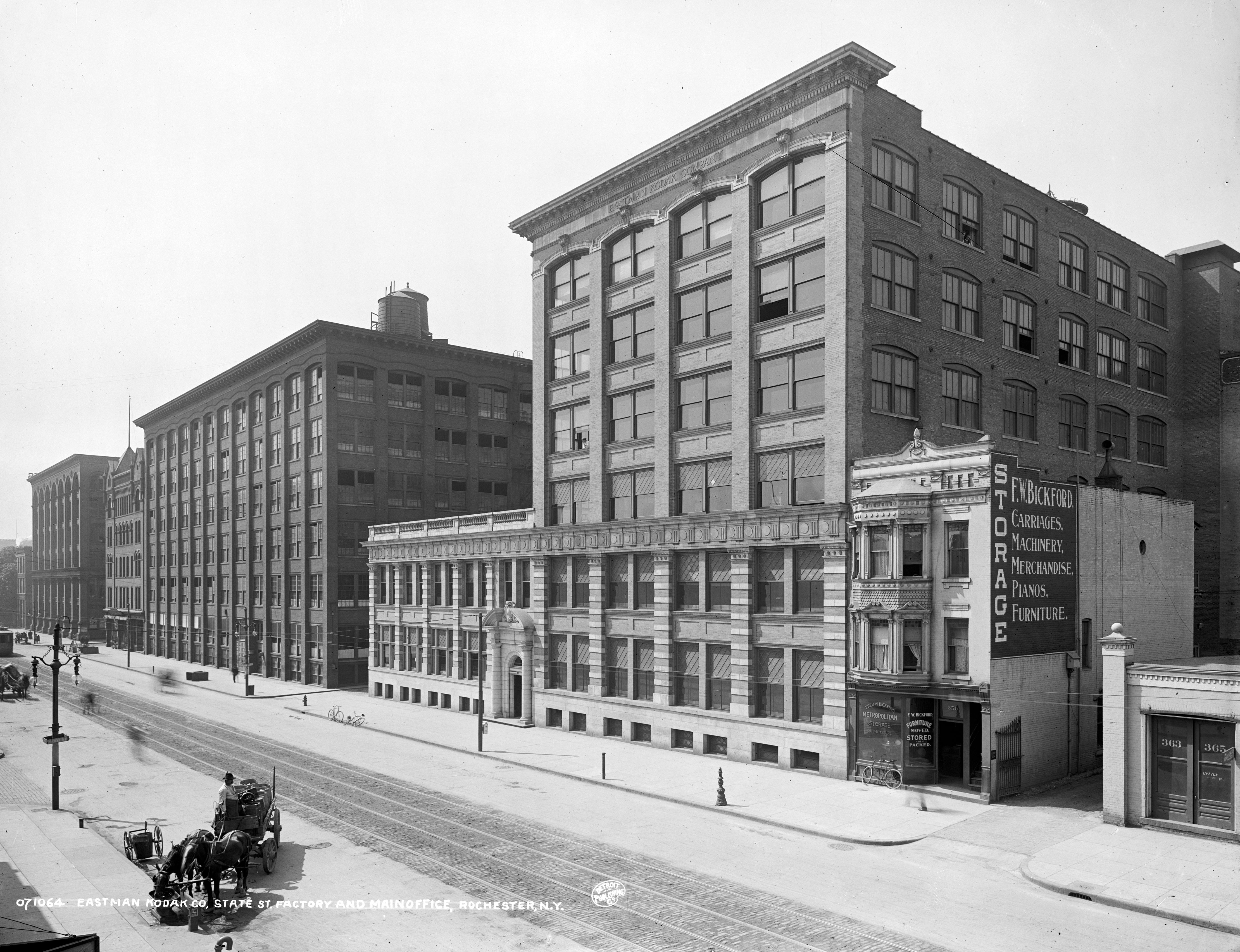 Eastman Kodak Company factory and main office in Rochester, New York